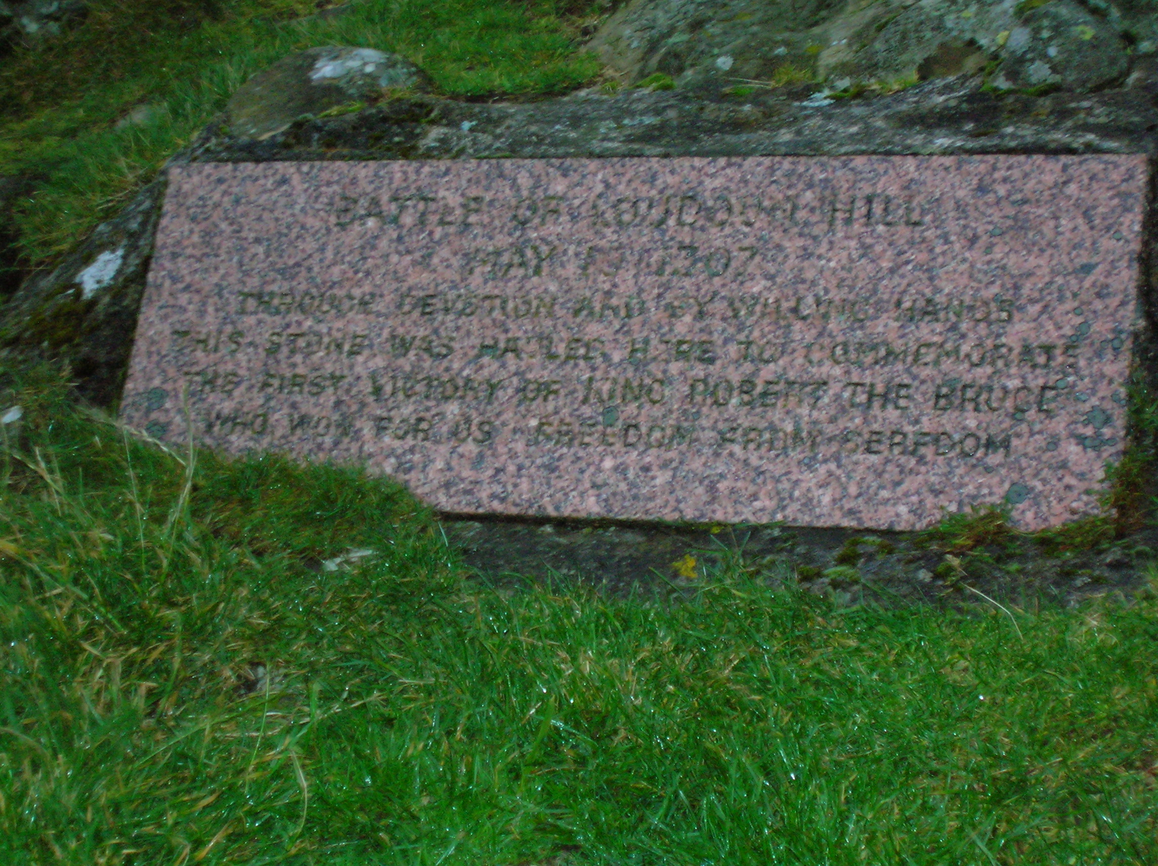 The memorial to Robert the Bruce and the Battle of Loudoun Hill, East Ayrshire, Scotland